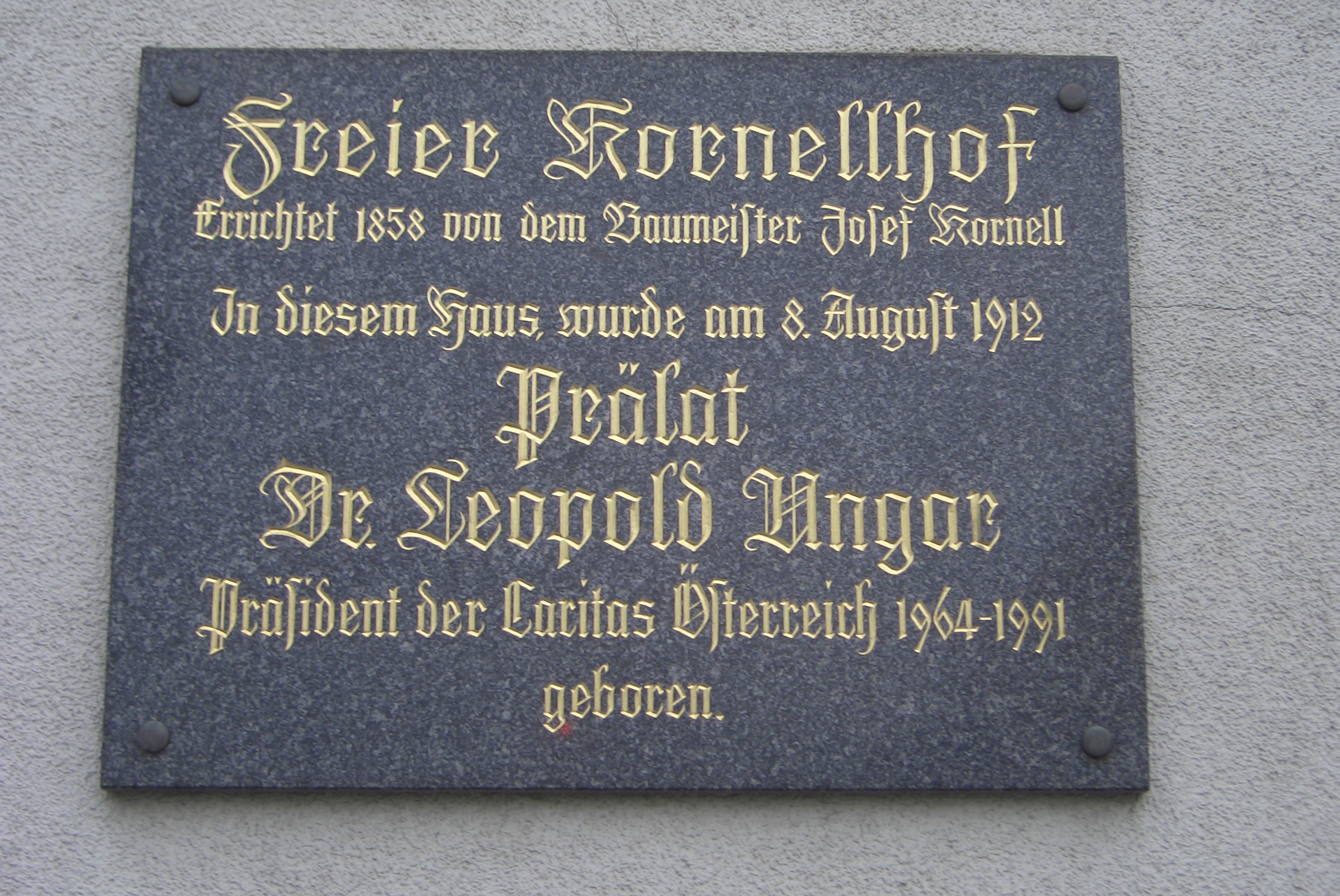 Memorial plaque on the birthplace of Prelat Leopold Ungar (1912-1992) in Wiener Neustadt, Grazer Strasse 106.